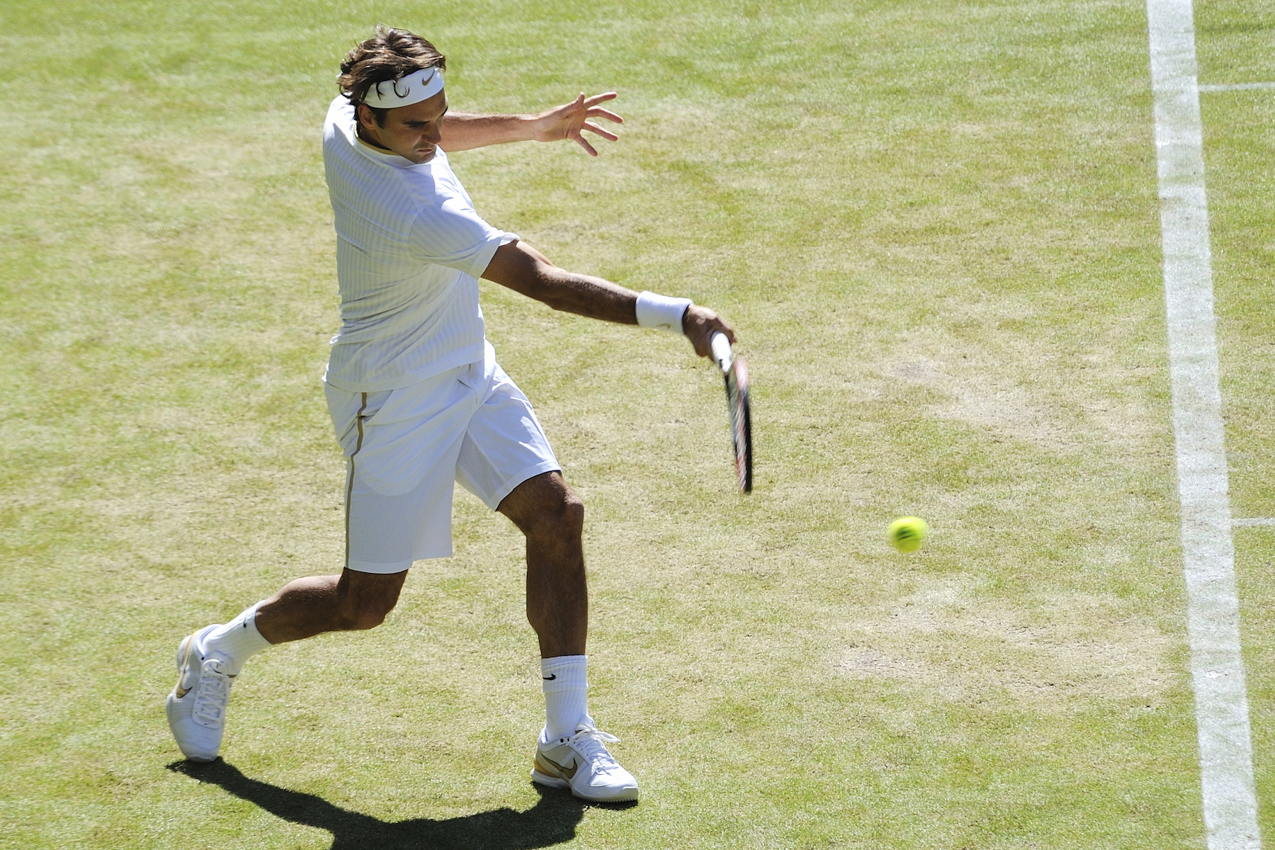 Roger Federer against Guillermo García-López in the 2009 Wimbledon Championships second round